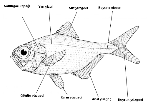 A diagram illustrating the fins of a fish